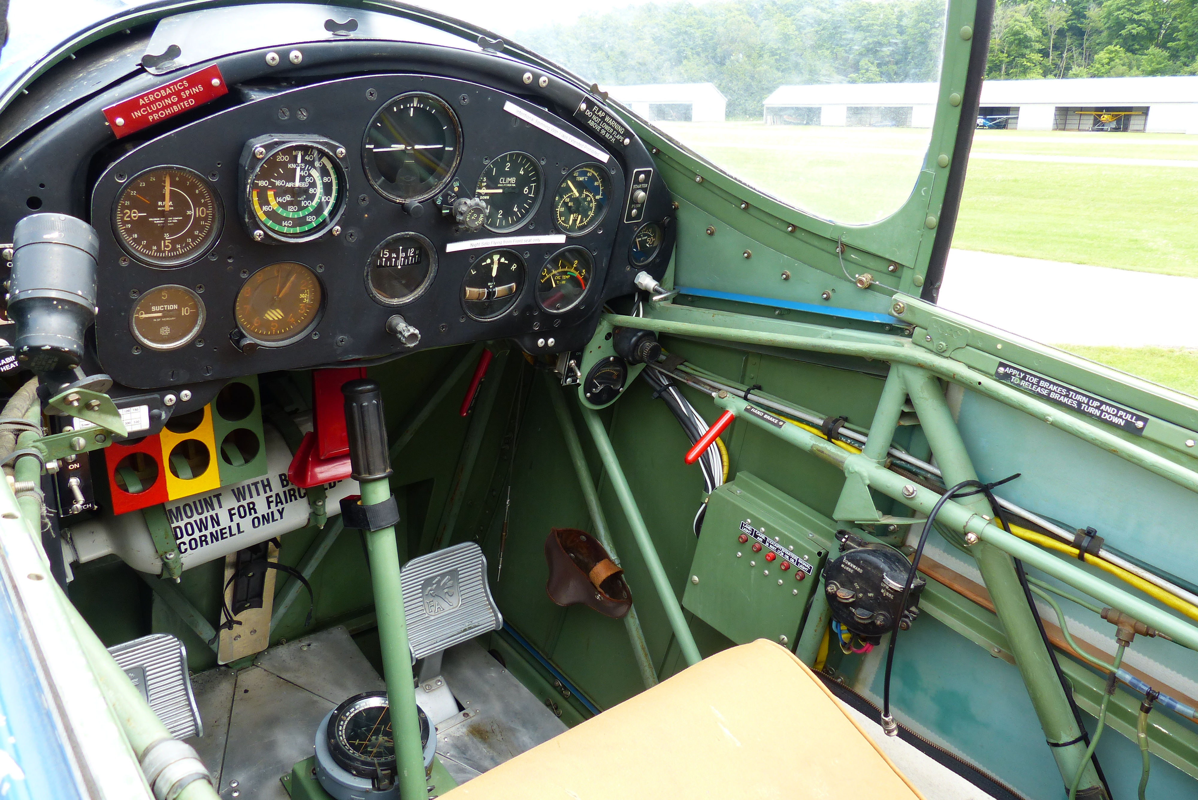 Starboard side of a Commonwealth Cornell's cockpit. CF-NOR, Royal Norwegian Air Force. Tiger Boys Aircraft Works, Guelph Airpark. Taken with permission of Mr. Tom Dietrich. Aircraft details: Fairchild-M-62A-3, Serial FV-688 Dec 1943, restored by Allan Mather.